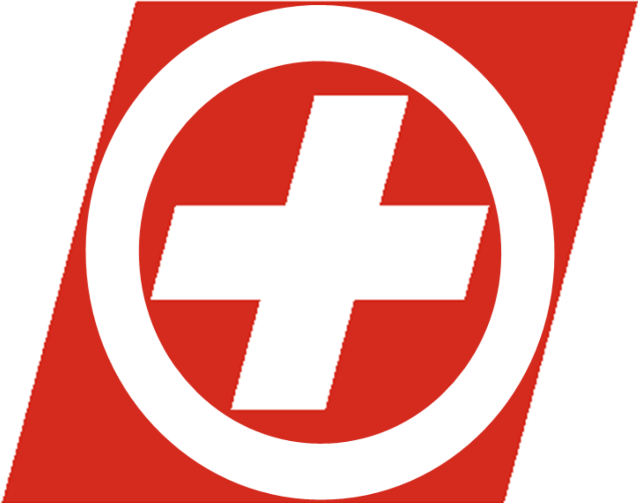 Logo Swiss Donation WWII